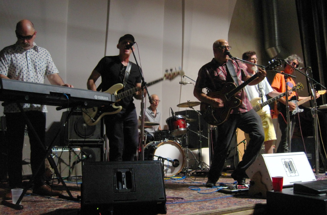 Rain Parade performing at Light Rail Studios in San Francisco, September 7, 2013